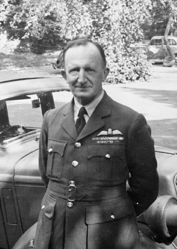 Photograph of Wing Commander H de V. Leigh, inventor of the Leigh Light.